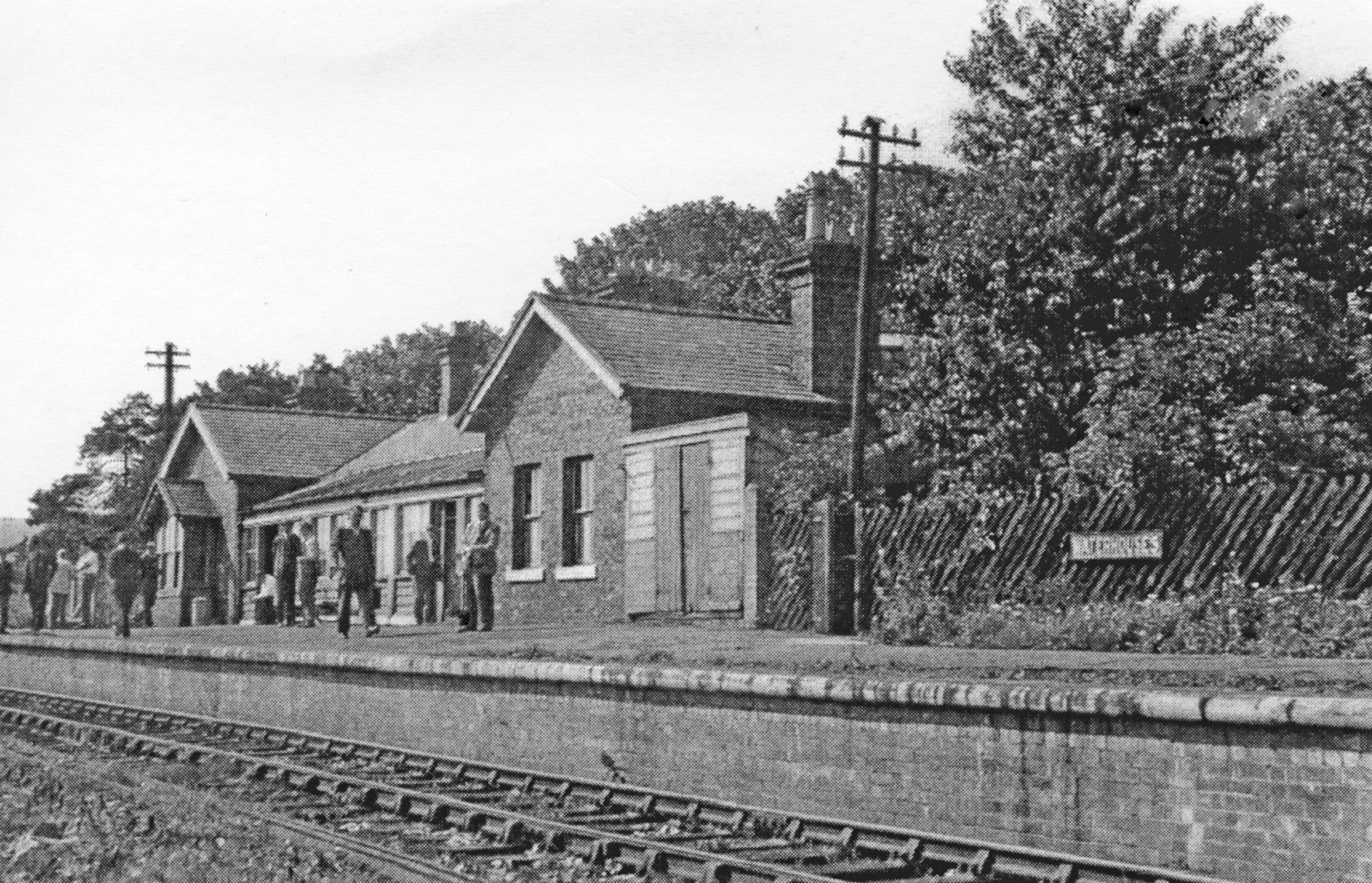 Waterhouses (closed) station,1958View SW, towards Brancepeth Colliery for mineral traffic. Until closed 29/10/51 it was the terminus of the Dearness Valley branch from Durham of a passenger service of one train a day - also for a service on Durham Miners' Gala Day, once a year until 7/60. Goods trains ran to Brancepeth until 10/8/64, to Waterhouses until 28/12/64. The photograph was taken on the occasion of a Rail Tour.